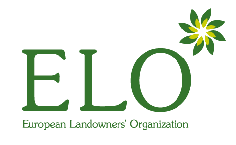 Logo ELO PNG